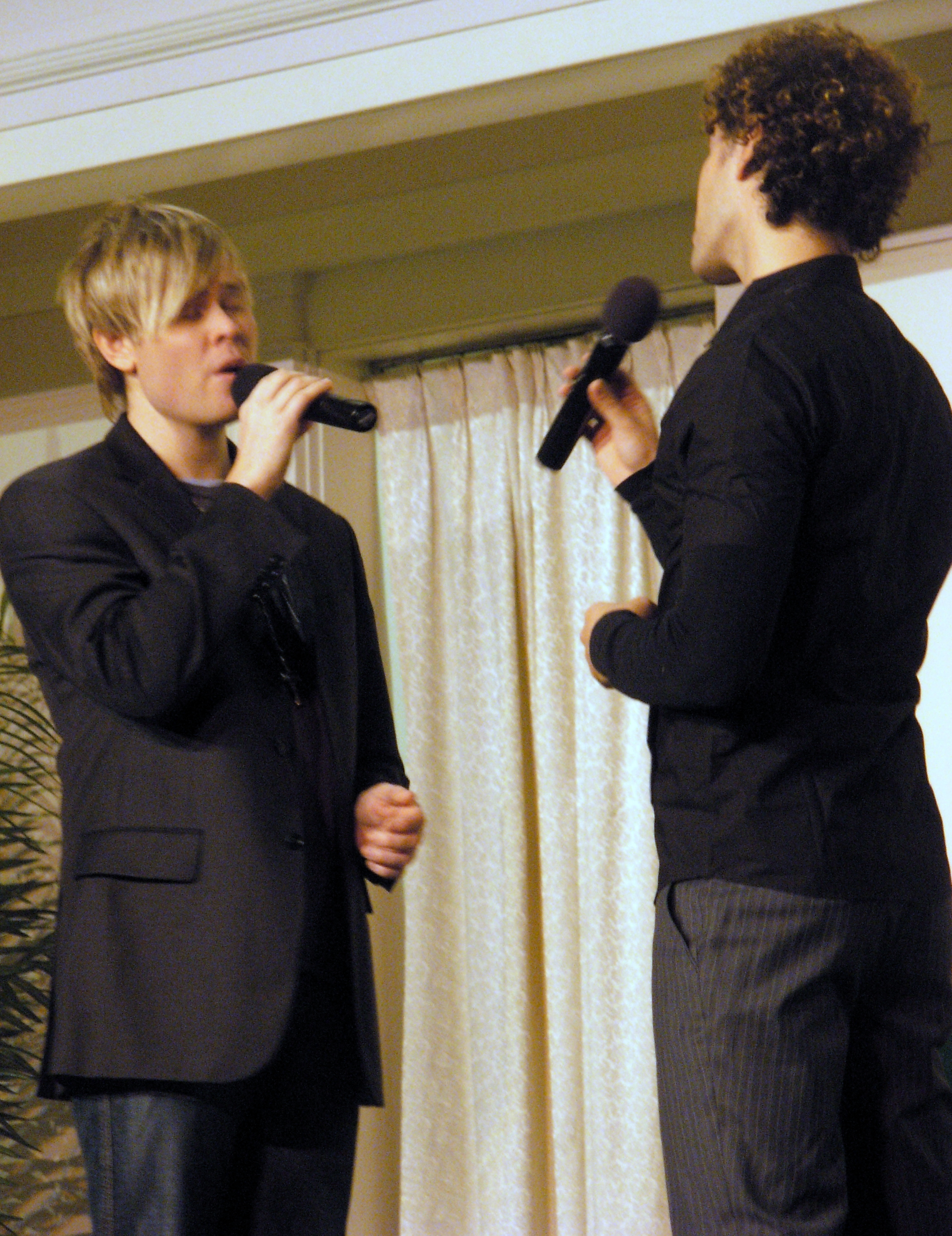 Jason Warner and deMarco DeCiccio singing together at All God's Children Metropolitan Community Church in Minneapolis, Minnesota.